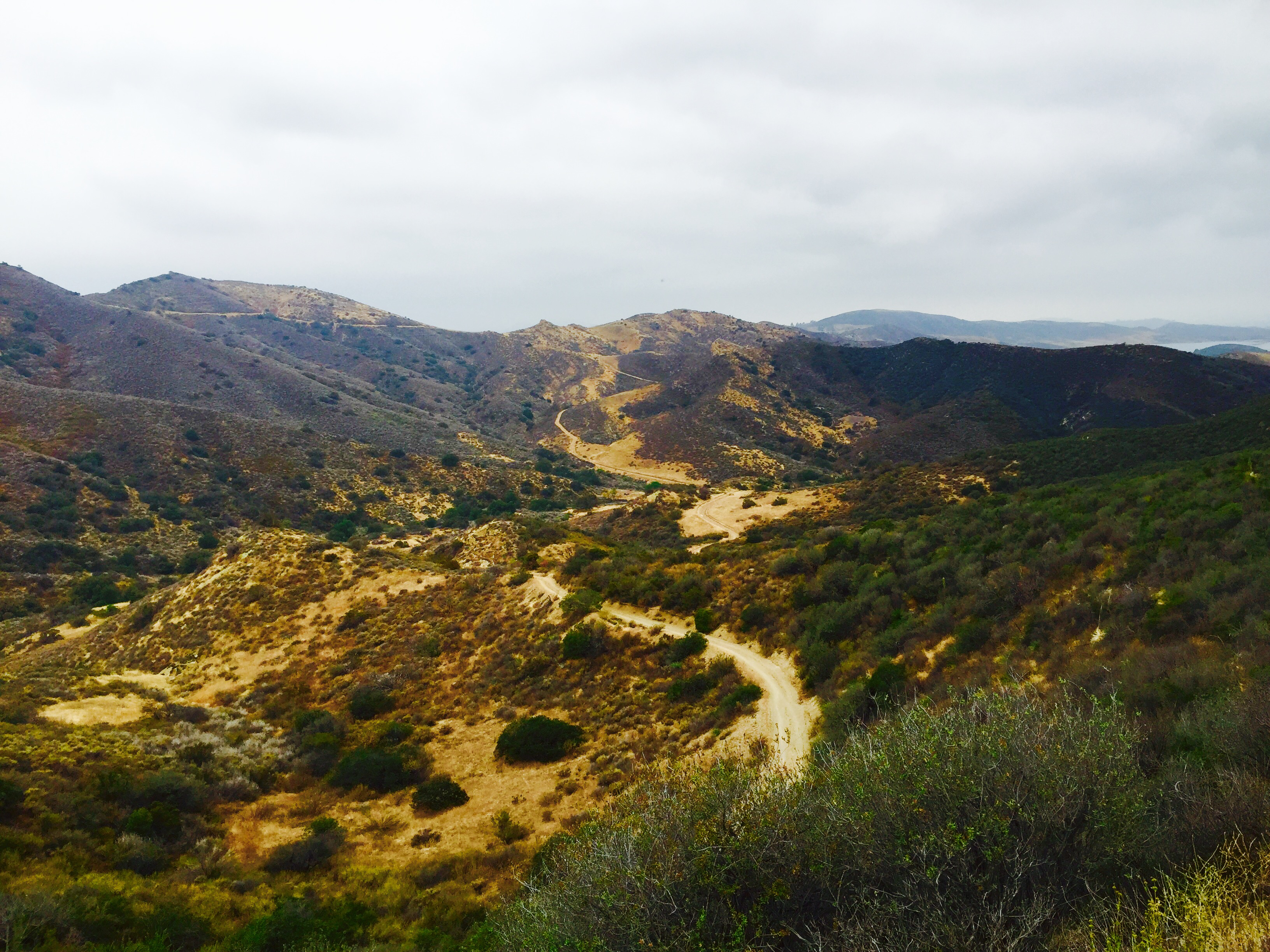 Looking south from Simi's west end, with the Simi Hills in the far-background.